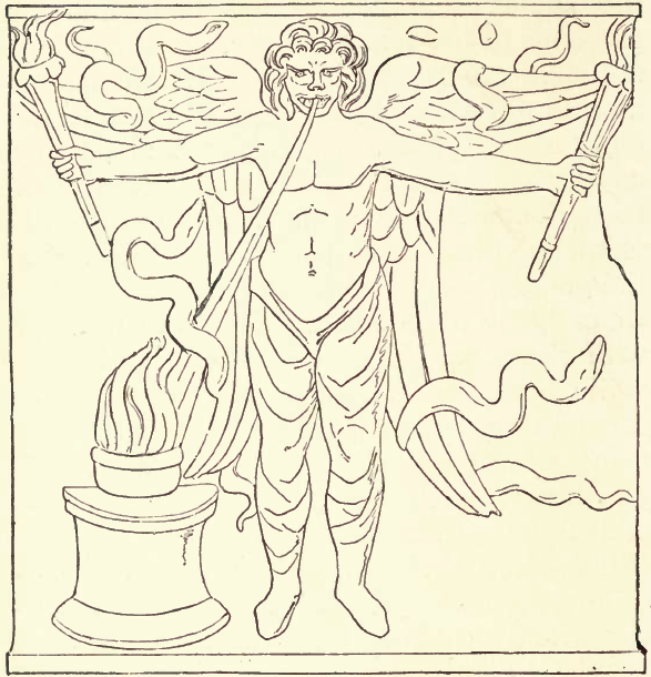 Mithraic Leontocephalous Kronos.